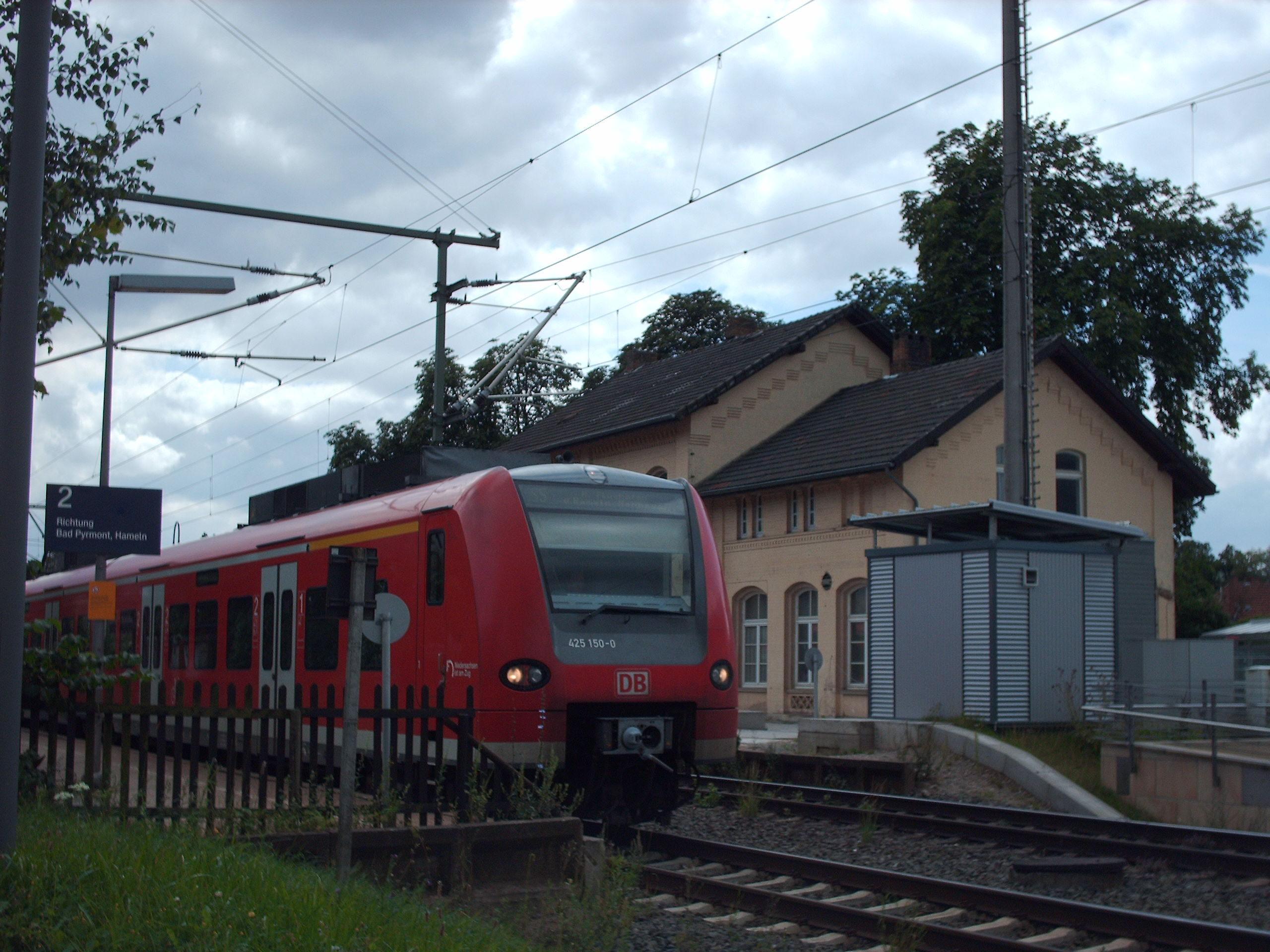 Lügde station, Lügde, Germany check usage